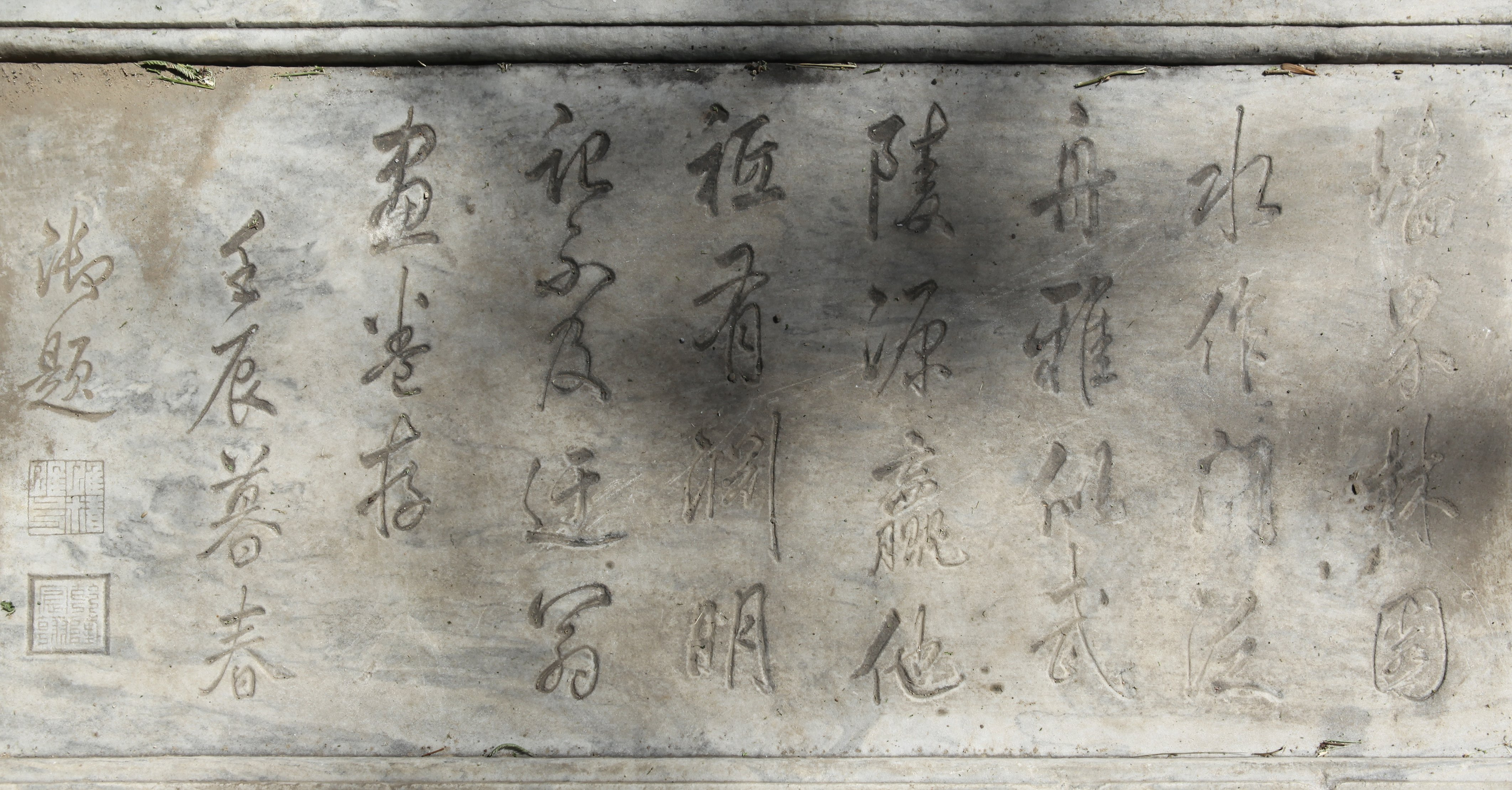 Qianlong's handwriting in Old Summer Palace